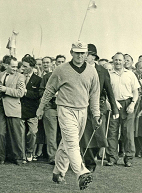 Leading the 1958 British Open at Royal Lytham